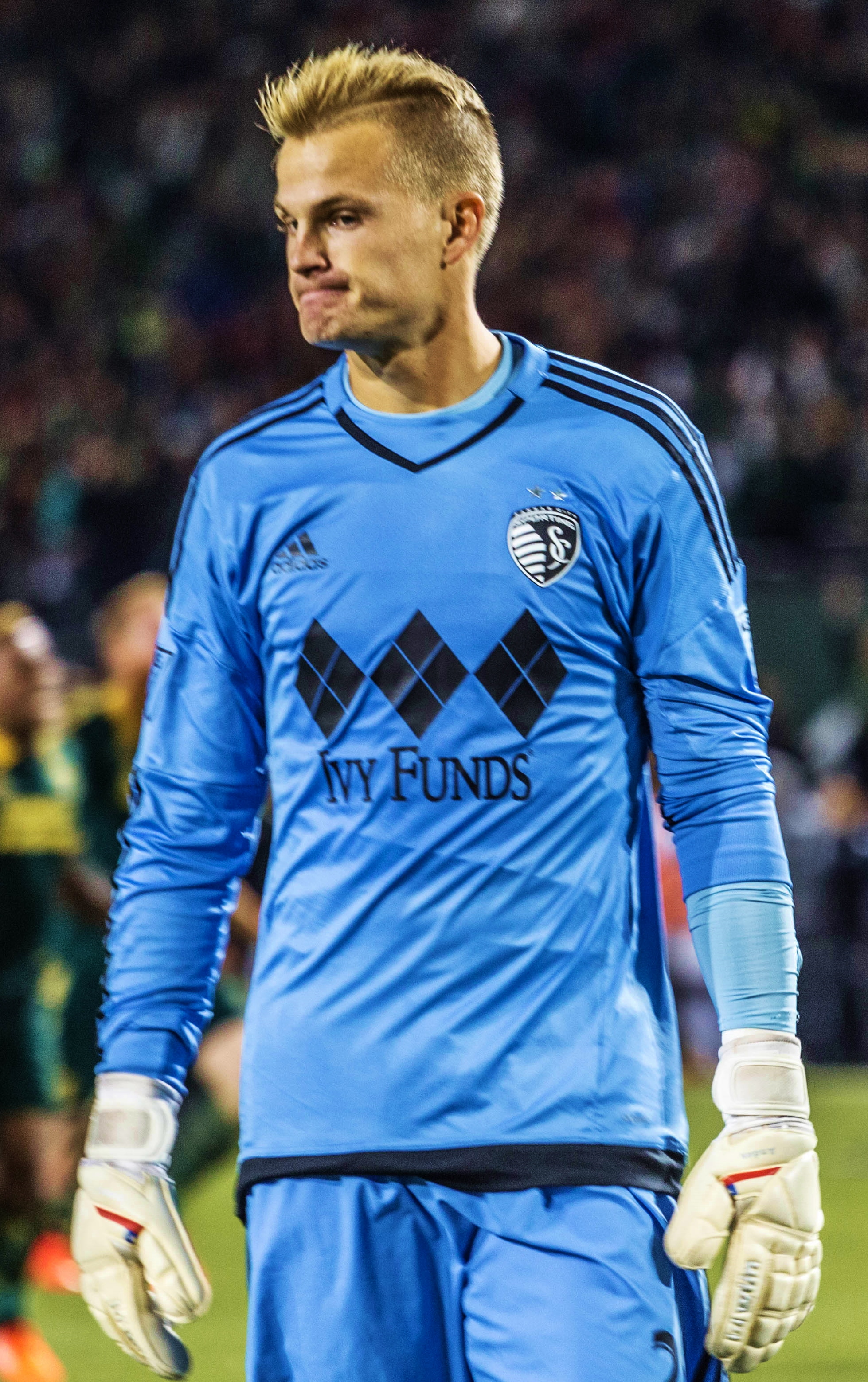 Jon Kempin